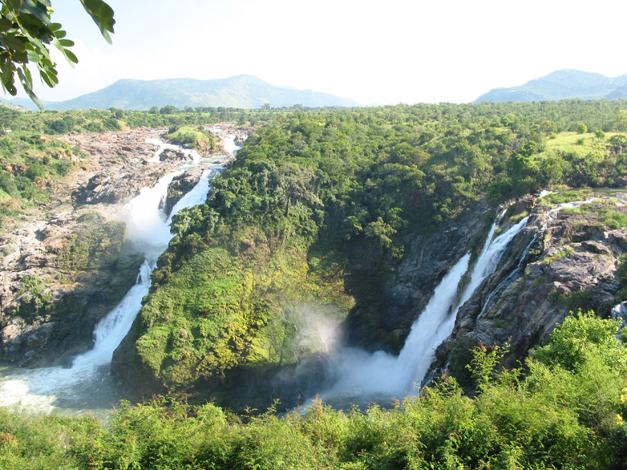 The full front view of the Gaganachukki Falls at Shivanasamudram. The water cascade along the side is not visible in this frame. Most mistake this falls as having both Gaganachukki (western cascade) and Barachukki (eastern cascade), whereas it is not true. This is the site of Asia's first Hydel Power plant and the electricity generated here was used to power the Kolar Gold Fields. Kolar, therefore, became the first town in Asia to receive electricity.